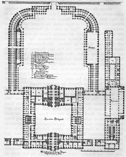 Plan of the first Christiansborg Palace in Copenhagen, Denmark, which was built from 1733 to 1745